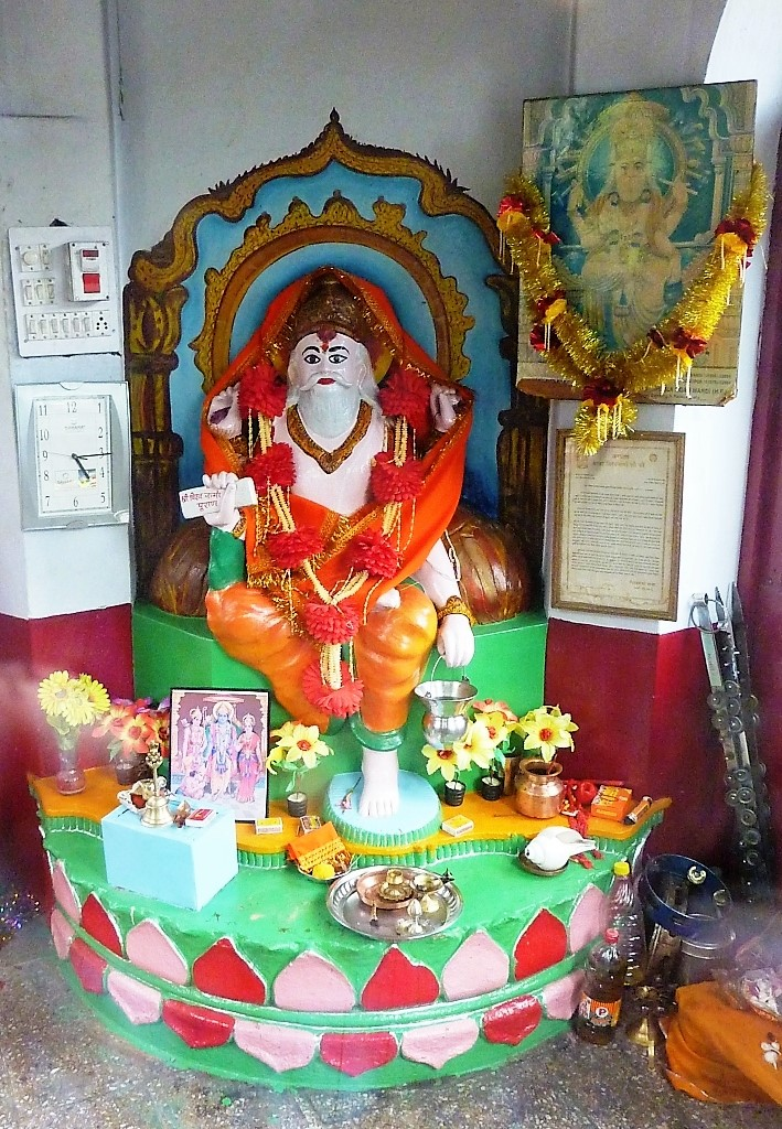 Vishwakarman statue in temple, Mandi, Himachal Pradesh, India.